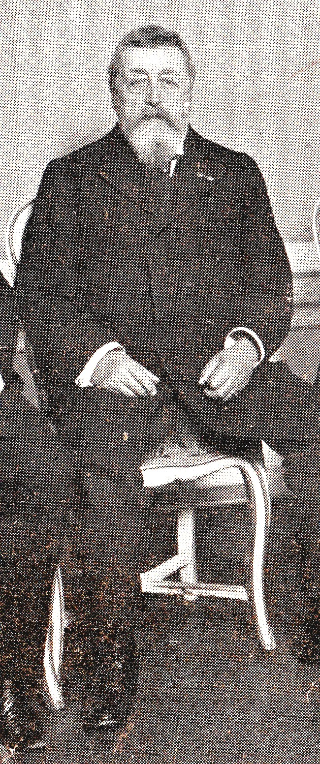 J.E.N. Sirtema van Grovestins